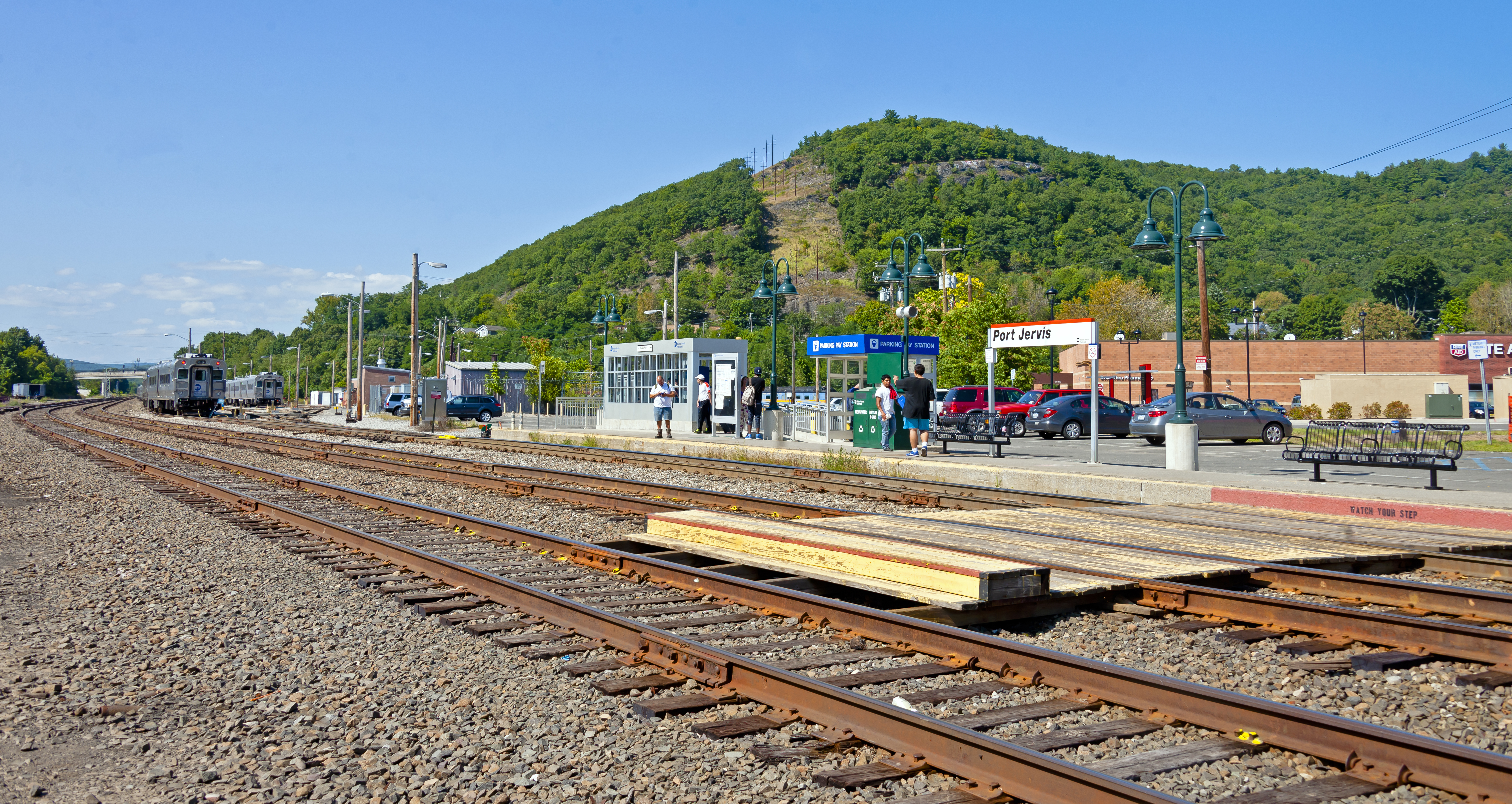 Port Jervis station at the end of eponymous Metro-North line, seen in 2015 after expansion and renovation